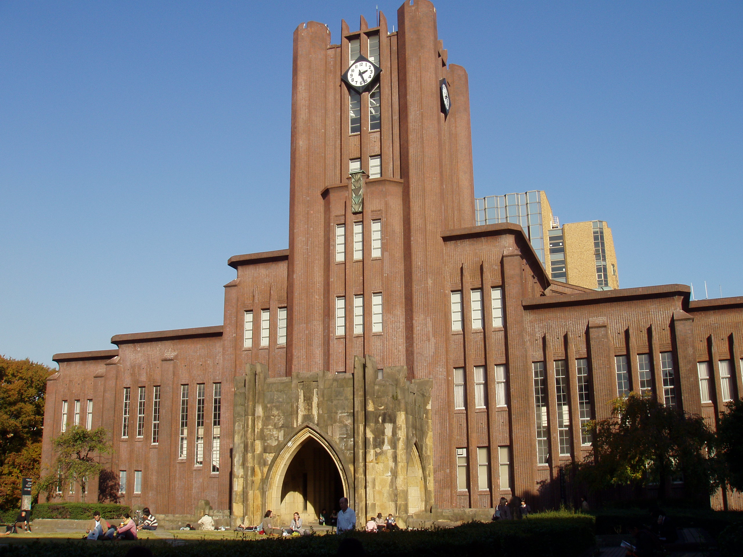 Yasuda Auditorium building, Tokyo University, Tokyo, Japan. Photograph taken by me, November 2005.